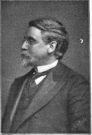 William P. Wilson; botanist; professor University of Pennsylvania; founder of the Philadelphia Commercial Museum